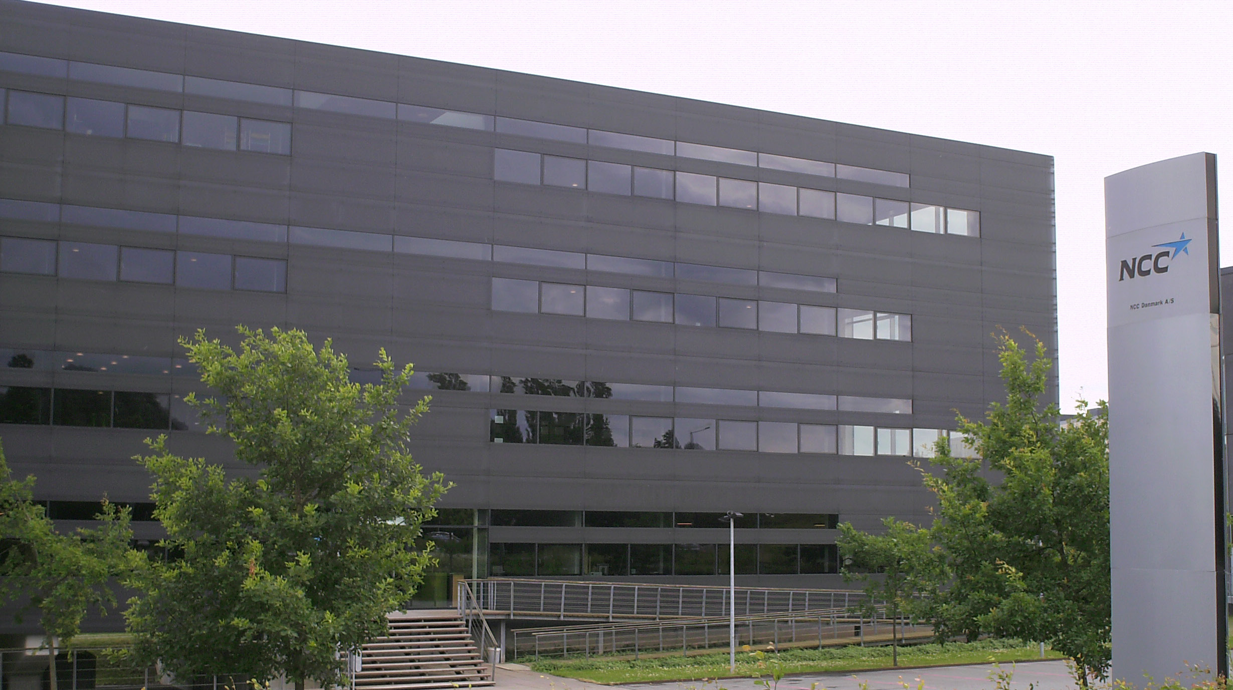 Nordic Construction Company in Århus, Denmark.